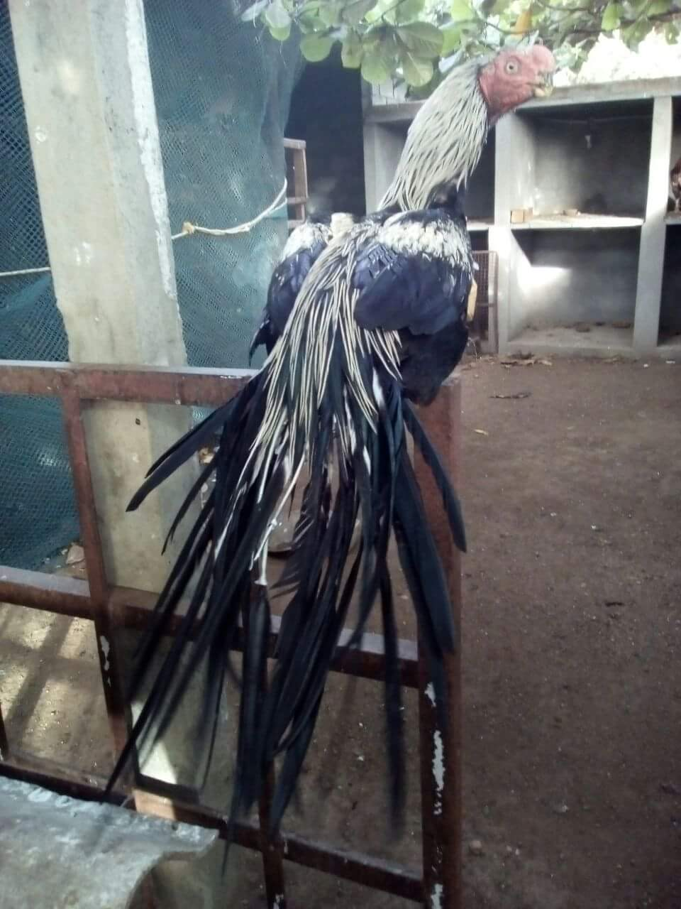 Long tail mayil aseel at palani